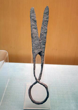 An Eastern Han-dynasty (25–220 AD) era Chinese pair of iron scissors.